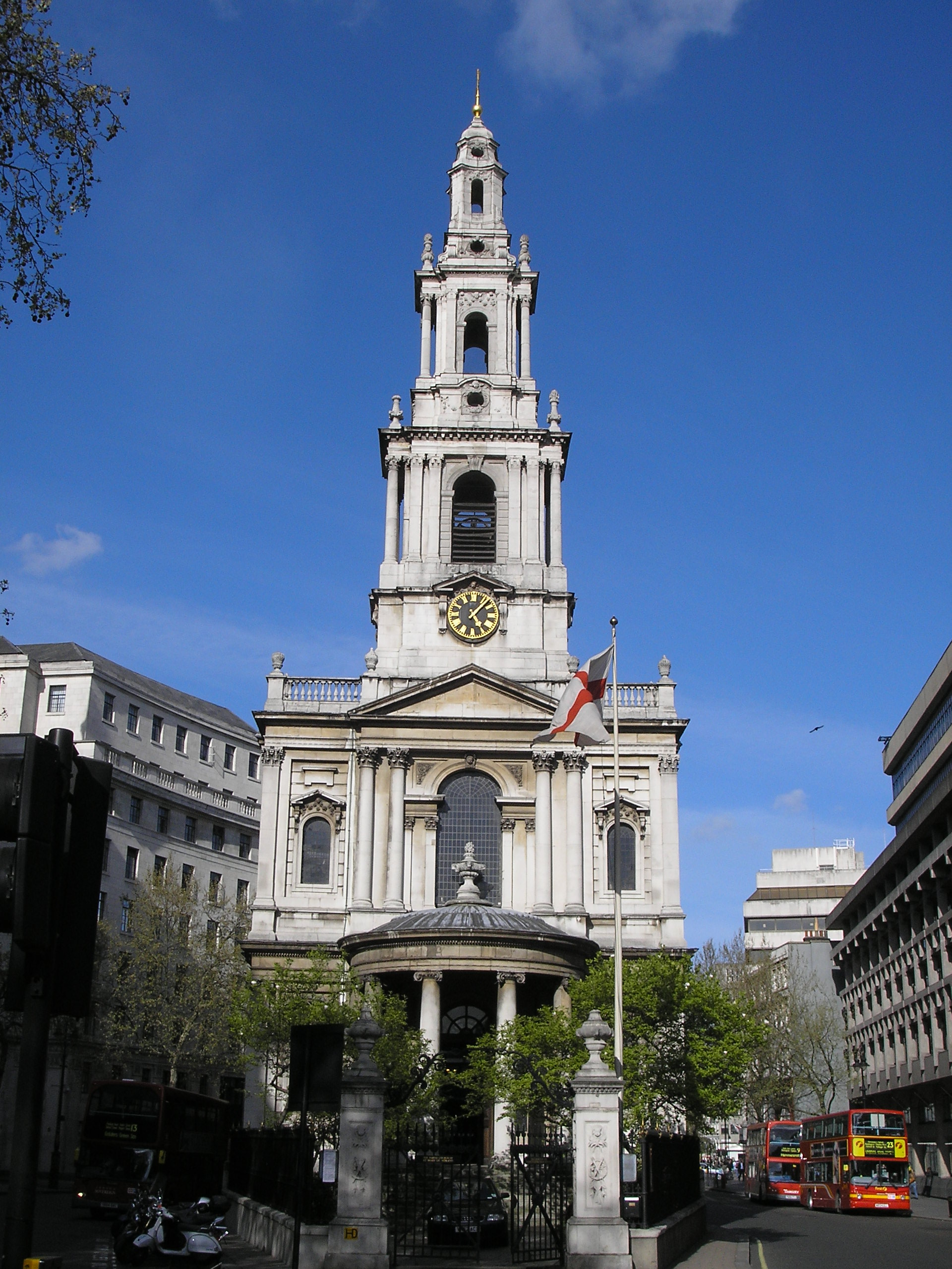 Church of St. Mary-le-Strand in London.